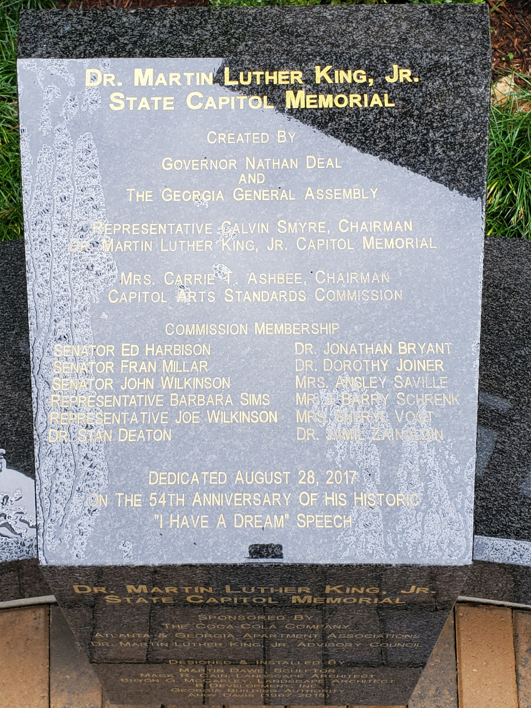 Martin Luther King, Jr. statue on the grounds of the Georgia State Capitol in Atlanta.